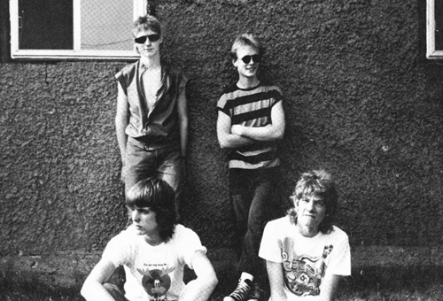 Promotional photo of the Marquette, Michigan USA based rock and roll band The Regulars. Clockwise from upper-left: Fritz Vankosky (bass guitar), Tim Demarte (vocals), John Burke (drums), Jeremy Porter (guitar).